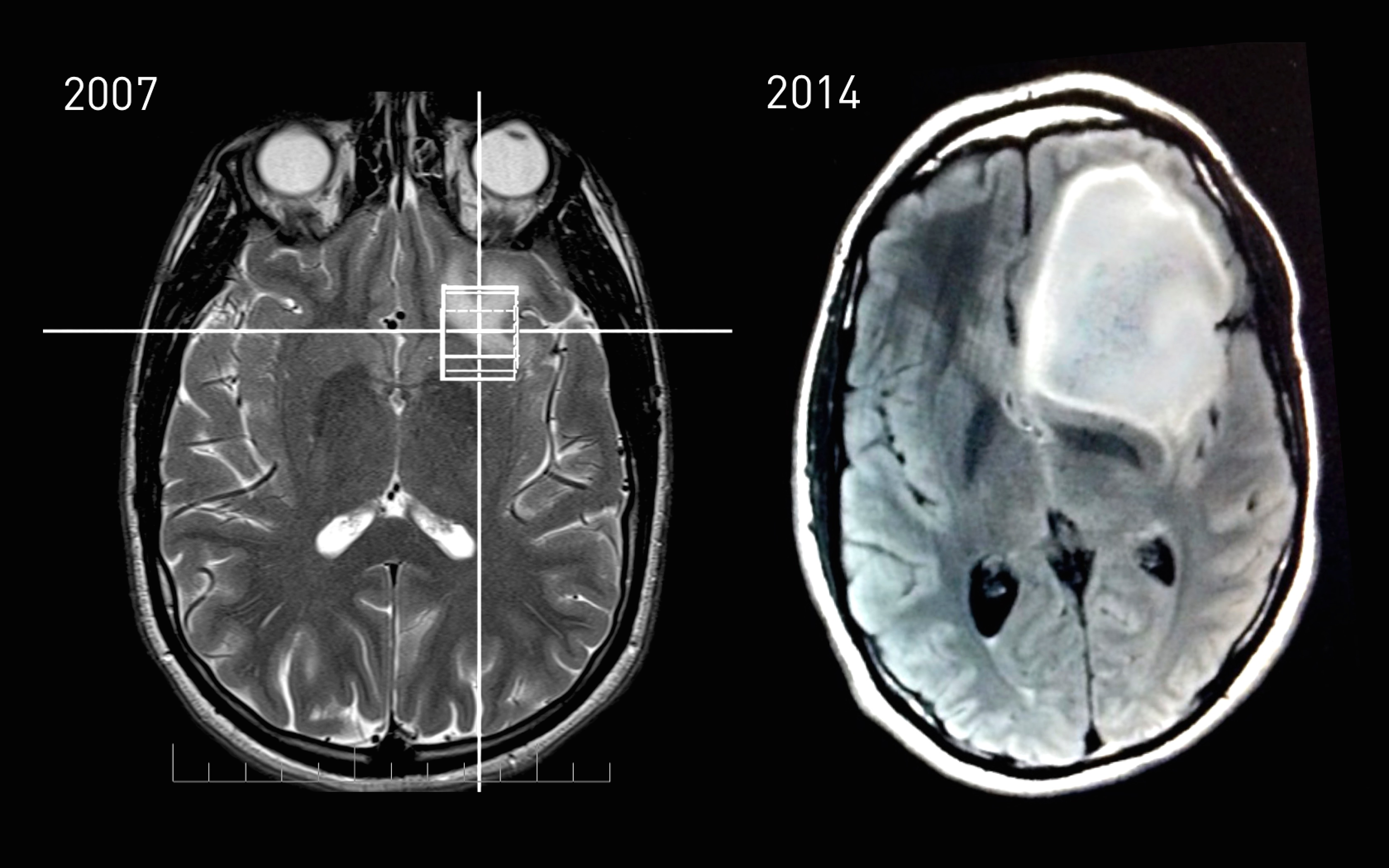 MRI cranial slices showing astrocytoma tumor growth between 2007 and 2014. Scans taken at Queen's University (2007) and at Mt. Auburn (2014). Patient was born in 1988. Uploaded with patient approval (patient: Steven Keating). More information on patient details available at